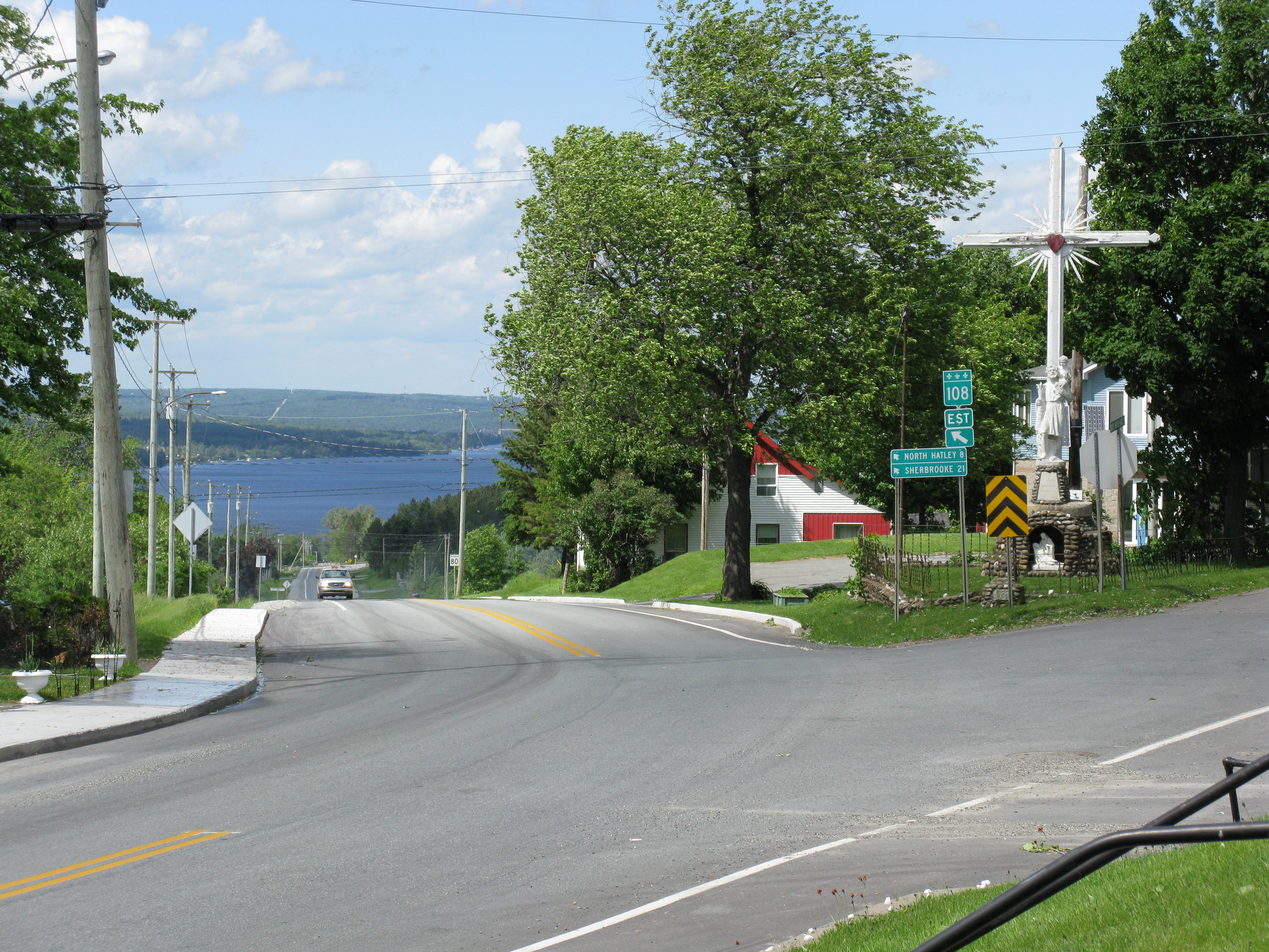 Lake Magog seen from Sainte-Catherine-de-Hatley (Katevale).